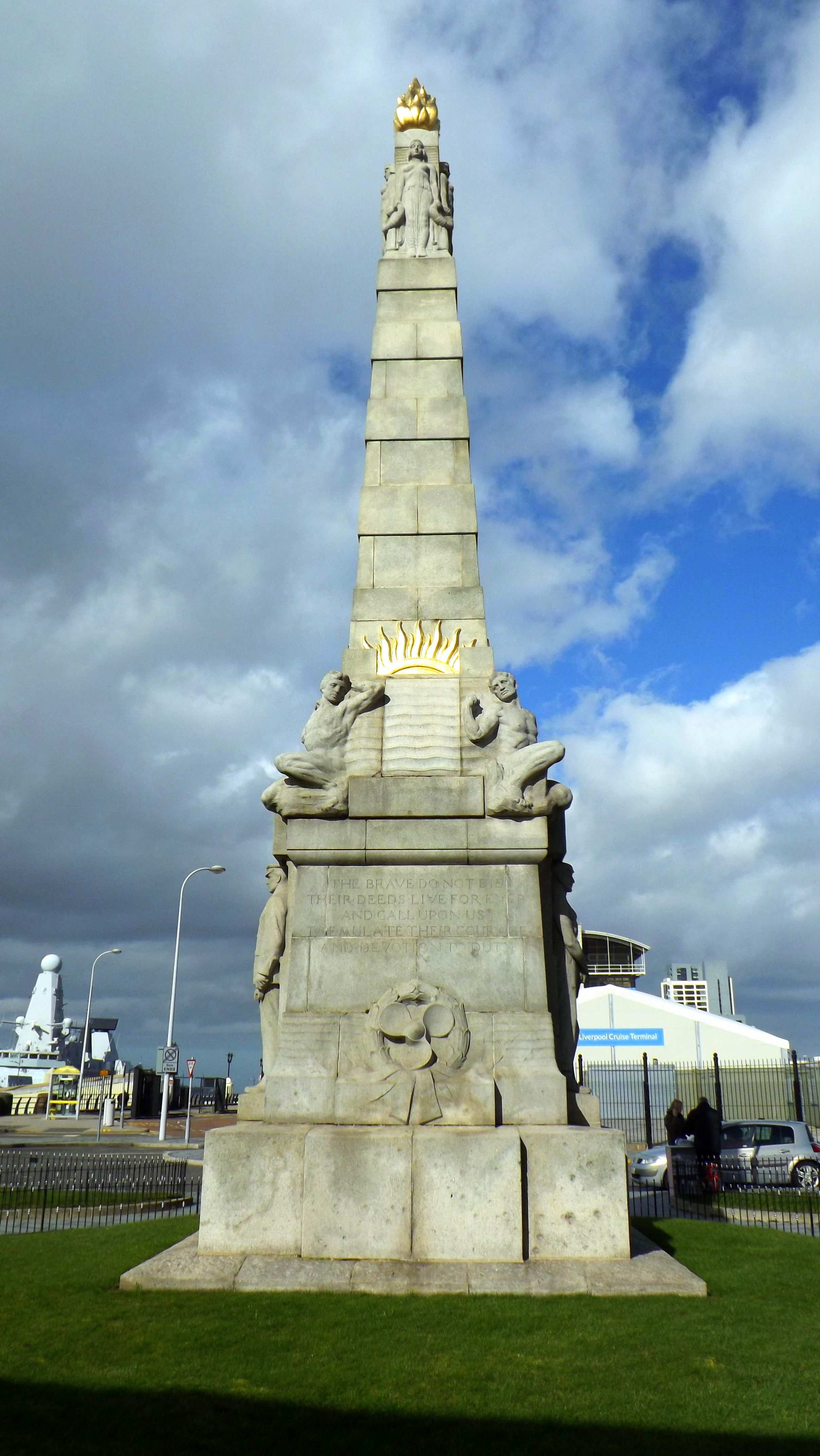 MEMORIAL TO HEROES OF THE MARINE ENGINE ROOM Wikidata has entry Q3305518 with data related to this building.